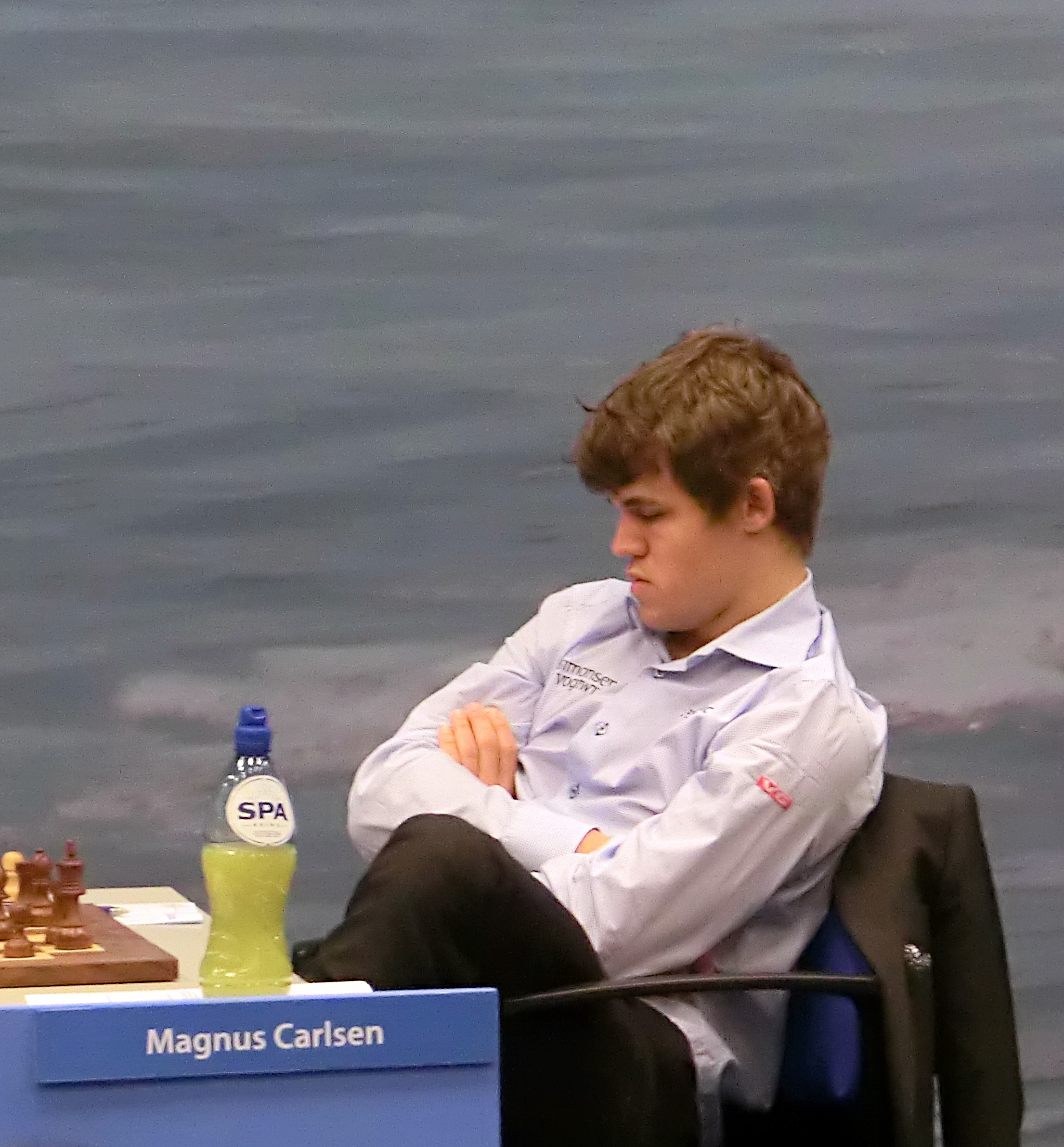 Magnus Carlsen, chess grandmaster from Norway